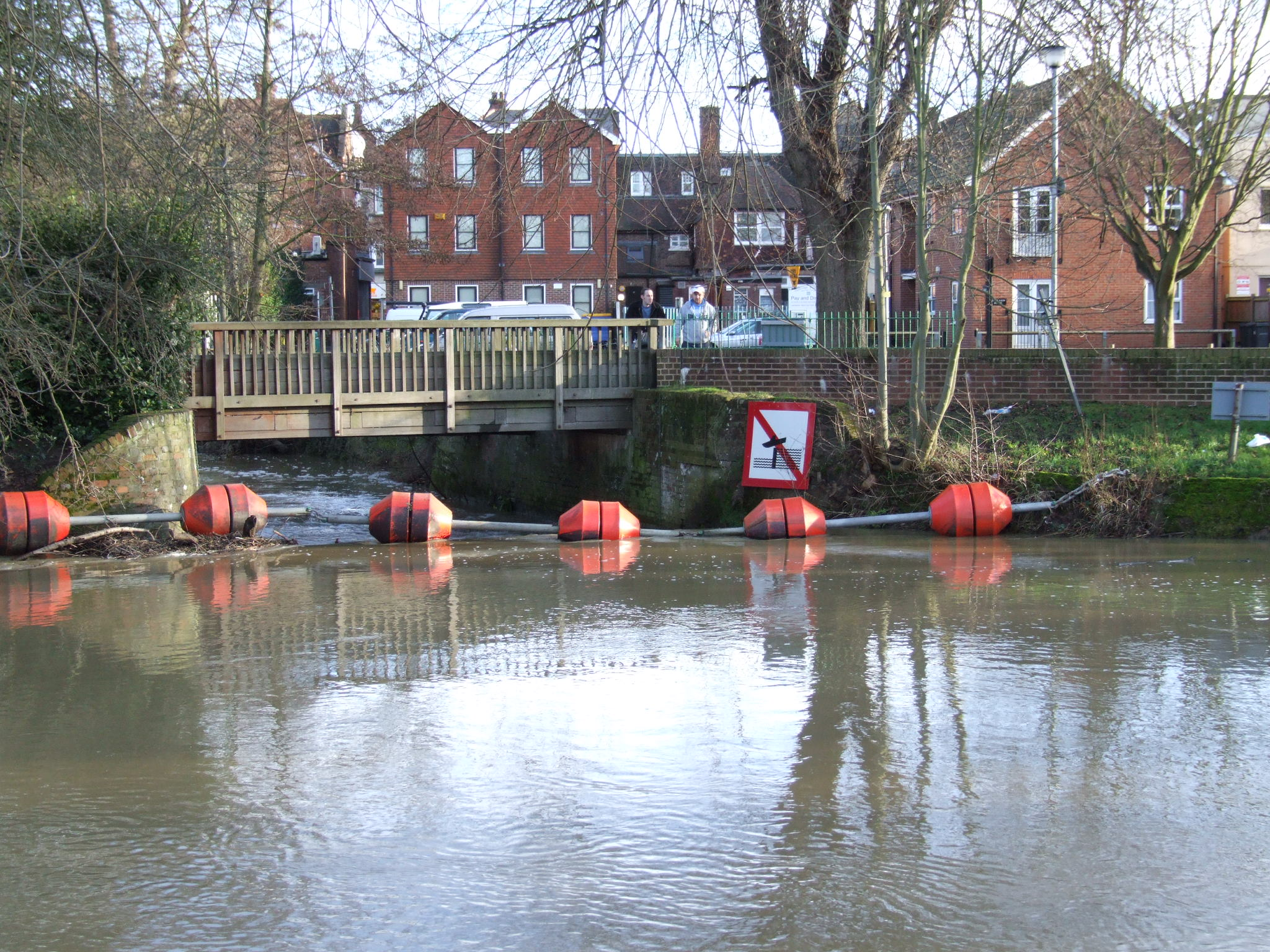 Tonbridge in Kent lies on the River Medway. The main channel passes under Big Bridge.Three channels have been culverted, the Botany Stream remains. Tonbridge is protected by Tonbridge Castle River Medway, the Botany Stream leaves the navigation to pass under the High Street.